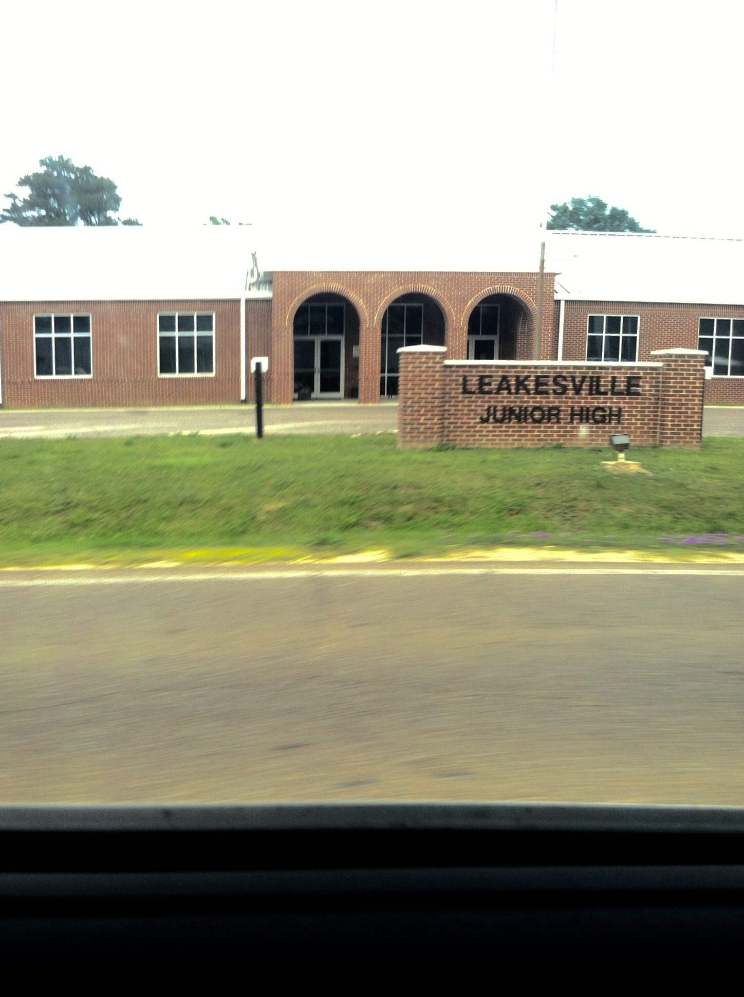 Leaksville Junior High School - 620 Main Street Leaksville, MS 39451